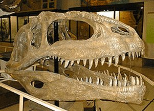 Skull of Giganotosaurus: a dinosaur from the late Cretaceous of Patagonia, often considered as the largest known terrestrial carnivore with its 14.3 m (47 ft). The skull alone is about 1.95 m (6 ft 5 in) long. Argentinean Museum of Natural Sciences